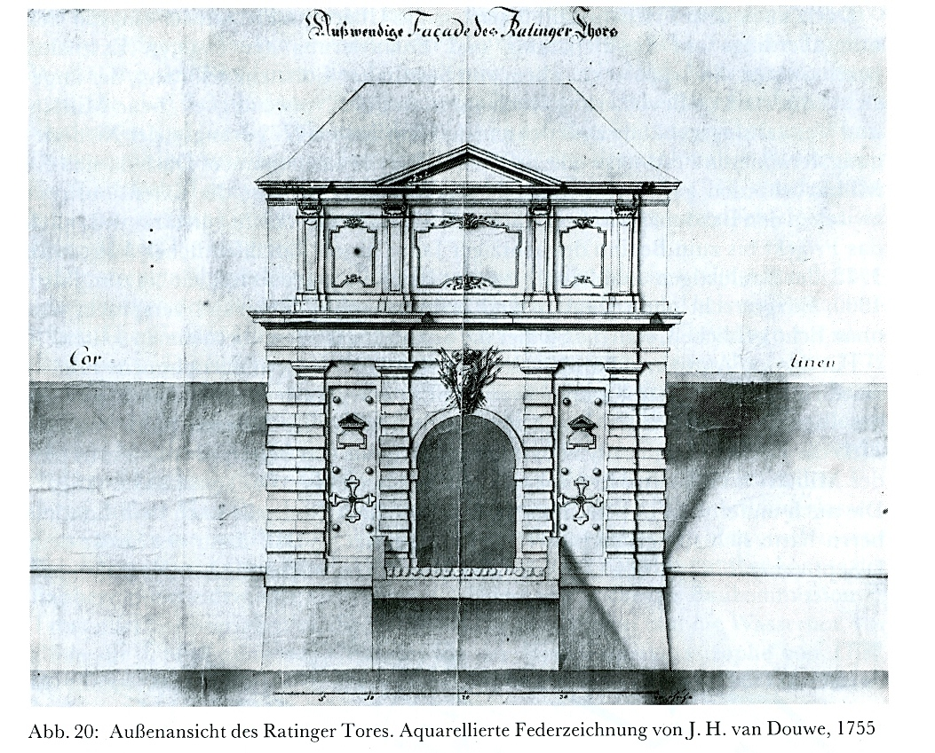 t